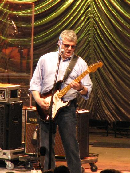 Picture taken at Interlochen Fine Arts Camp In Kresge Auditorium.